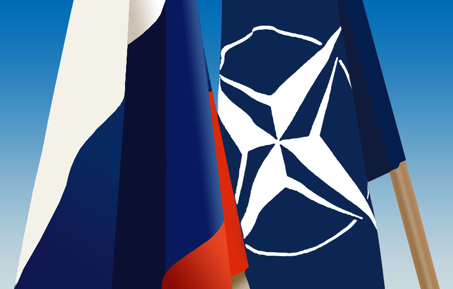 Russian and NATO flags JPEG